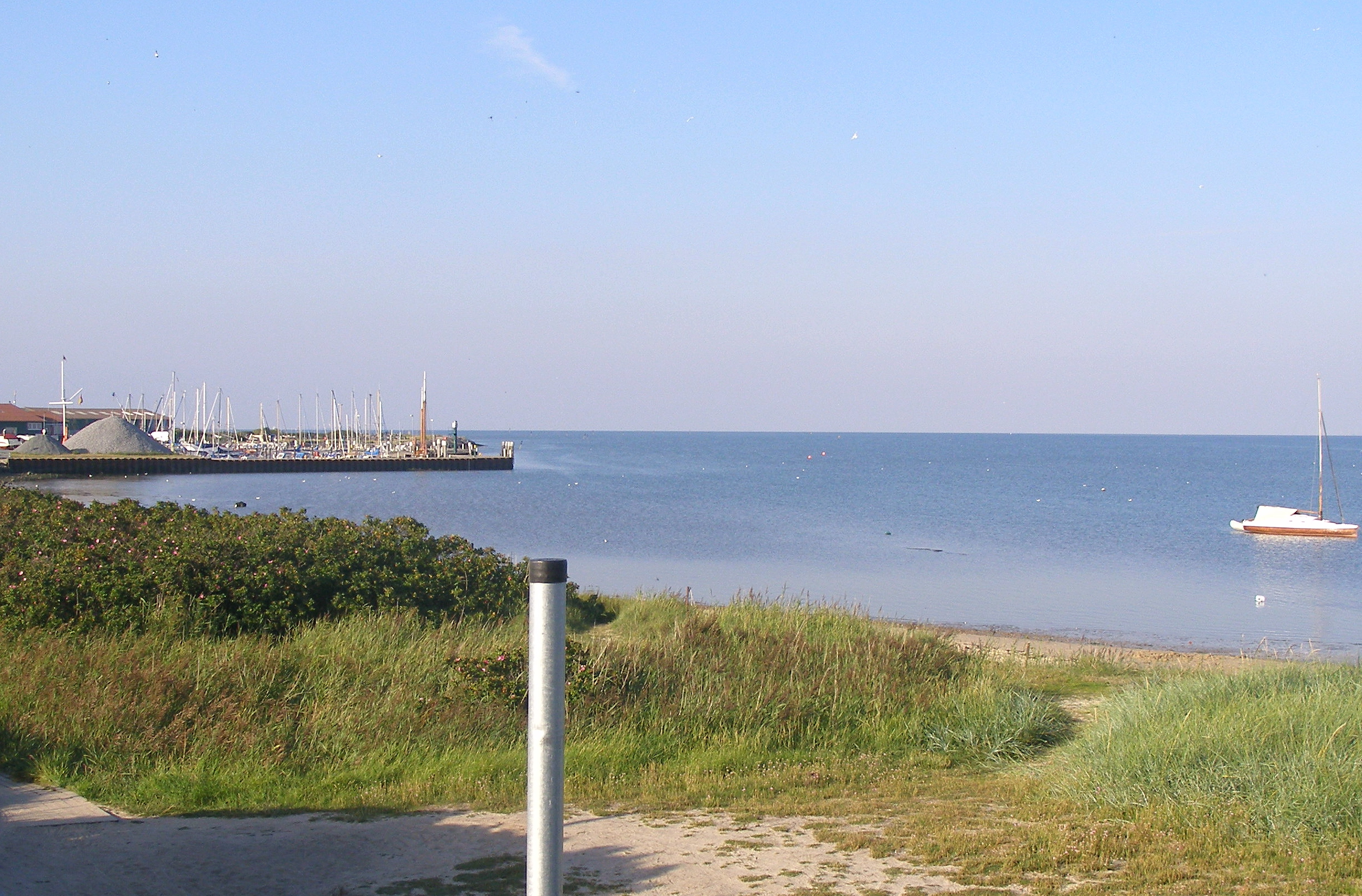 Yacht harbour at Munkmarsch (Sylt, Germany)